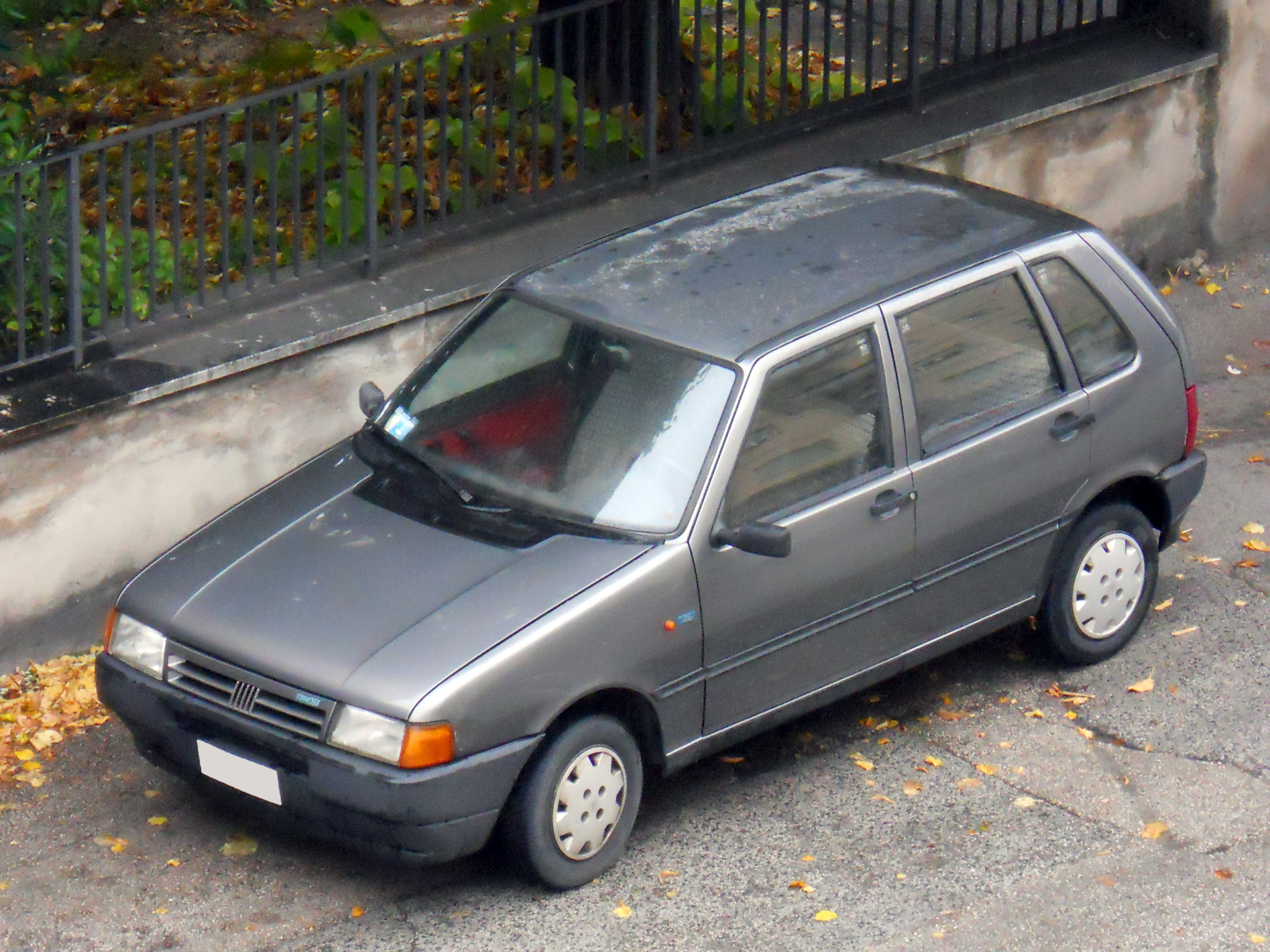 A Fiat Uno mk2 with a 999 cc, 33 KW petrol engine in Rieti, Italy. Registred in February 1992 in Lazio.